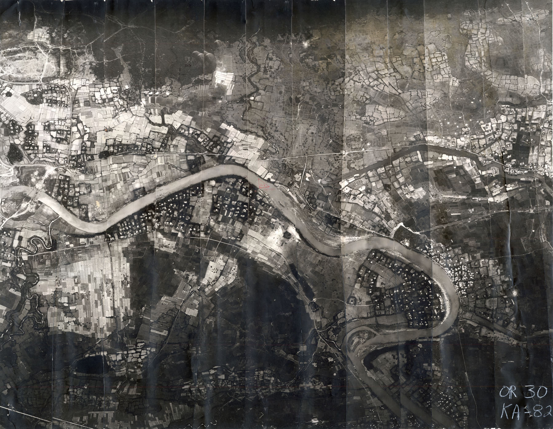 This mosaic reconnaissance photograph was used by the 3rd Aerospace Rescue Recovery Group to plan Lt. Col. Iceal “Gene” Hambleton’s rescue in 1972. (U.S. Air Force photo)